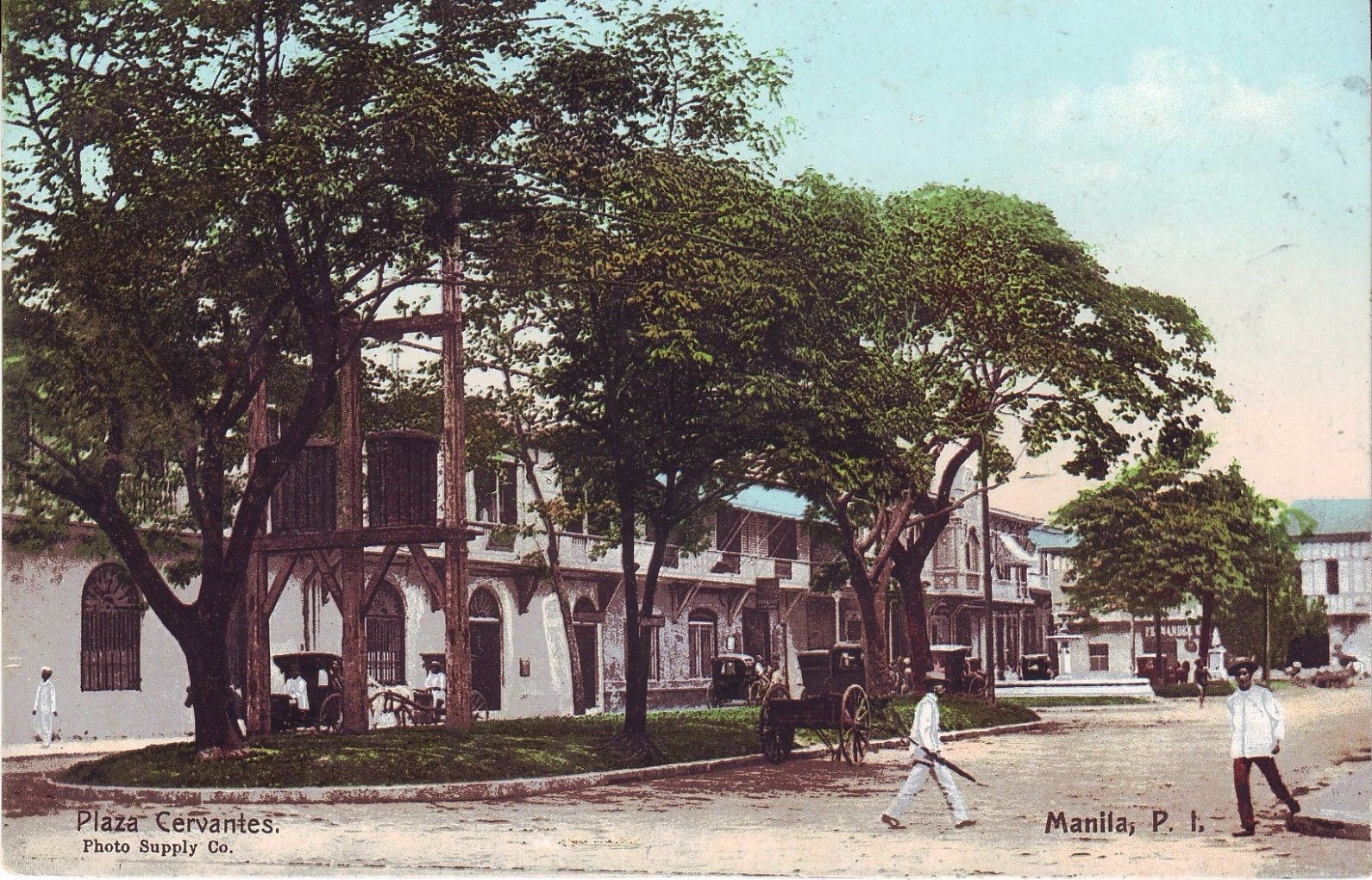 View of Plaza Cervantes from Calle Rosario (now Quintin Paredes Street). According to this description from WorthPoint, the postcard was printed around 1910. Tagalog: Tanawin ng Plaza Cervantes mula sa Kalye Rosario (ngayo'y Kalye Quintin Paredes). Ayon sa paglalarawan nito sa WorthPoint, inilimbag ang tarhetang postal na ito sa may 1910.